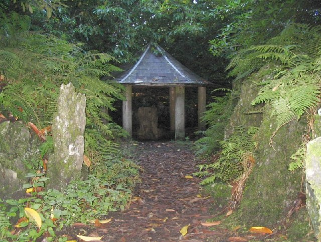 Curious Grotto at Gelli Aur Country Park. This dark shelter is secluded at the very back of the Arboretum walk.